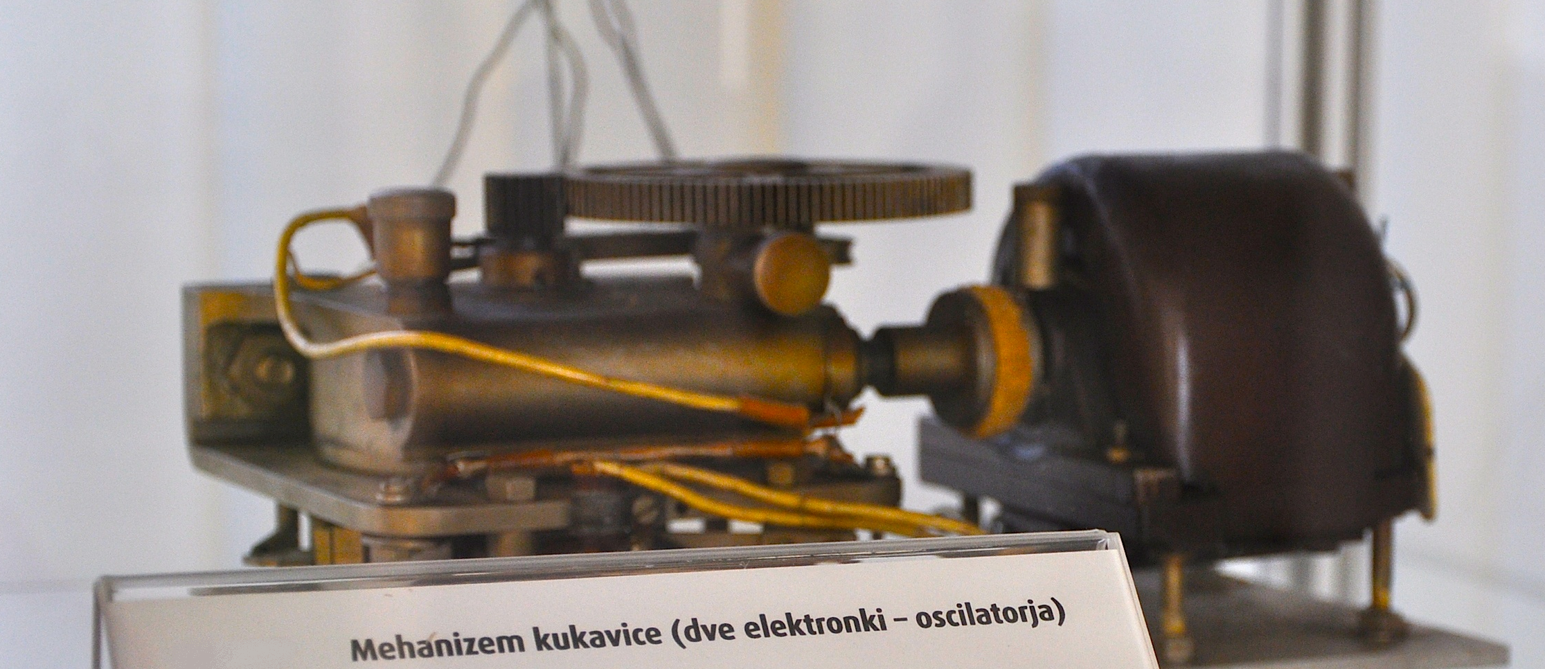 Cuckoo mechanism of RTV Slovenia (in use 1928 - 1957)